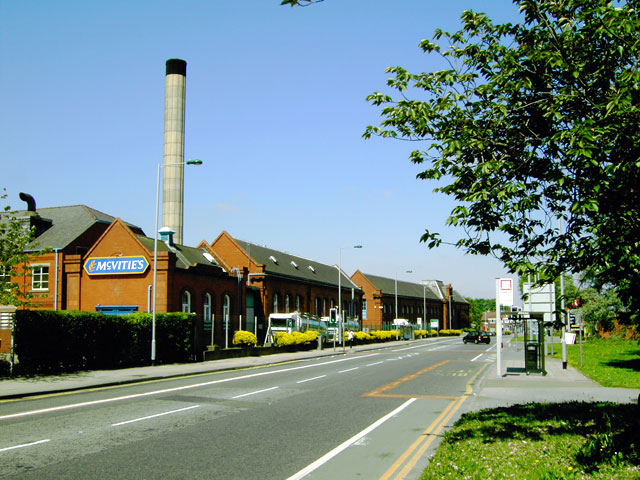 McVitie's Biscuit Factory, Wellington Road North, Stockport The far north of Stockport, close to the border with Manchester. Looking north towards the Manchester suburb of Levenshulme.